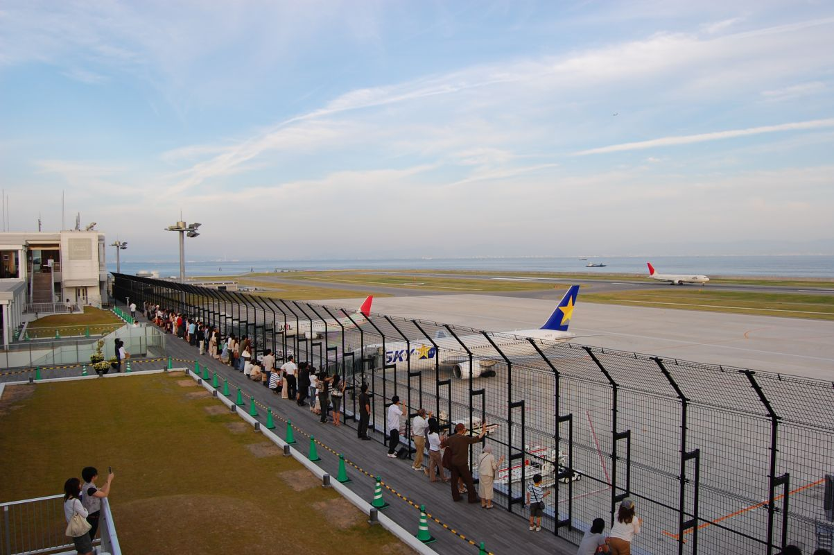 Kobe Airport, Observation Deck (Kobe, Japan)